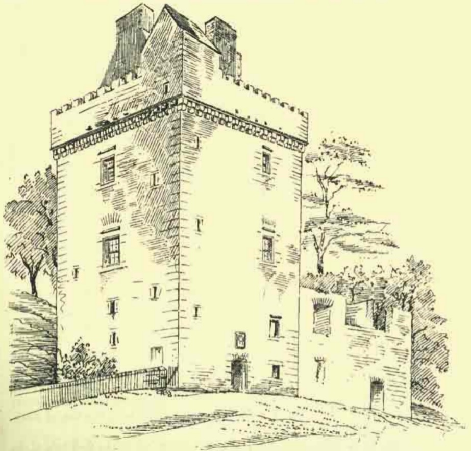 A line drawing of Rusco Tower, published in 1889 in The Castellated and Domestic Architecture of Scotland, Volume 2, by David MacGibbon and Thomas Ross.